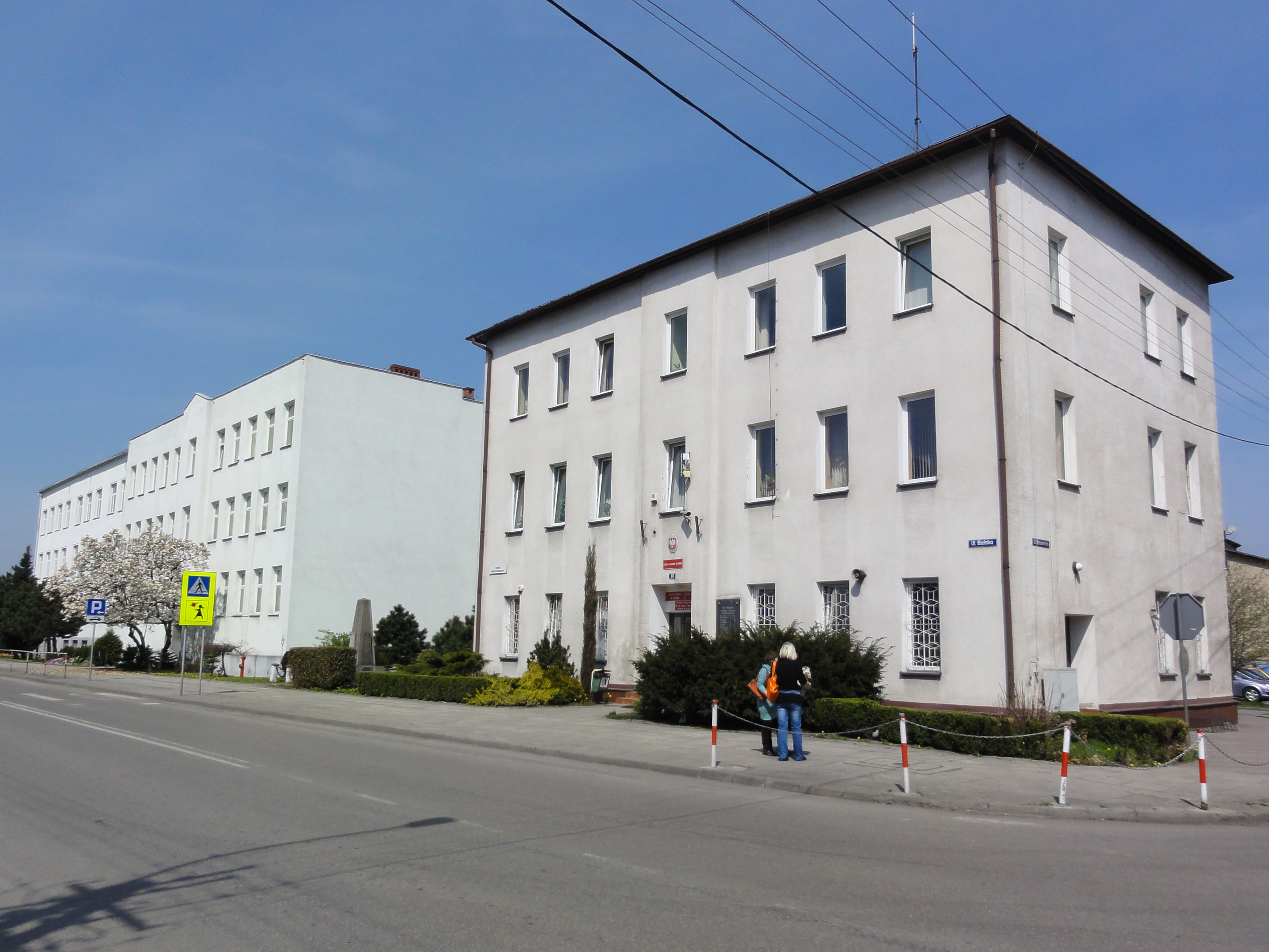 From right to left: municipal office, elementary school, gymnasium in Chybie